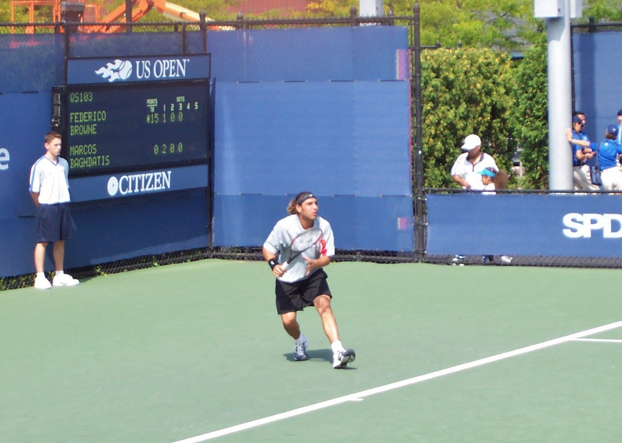 Marcos Baghdatis 2004 US Open